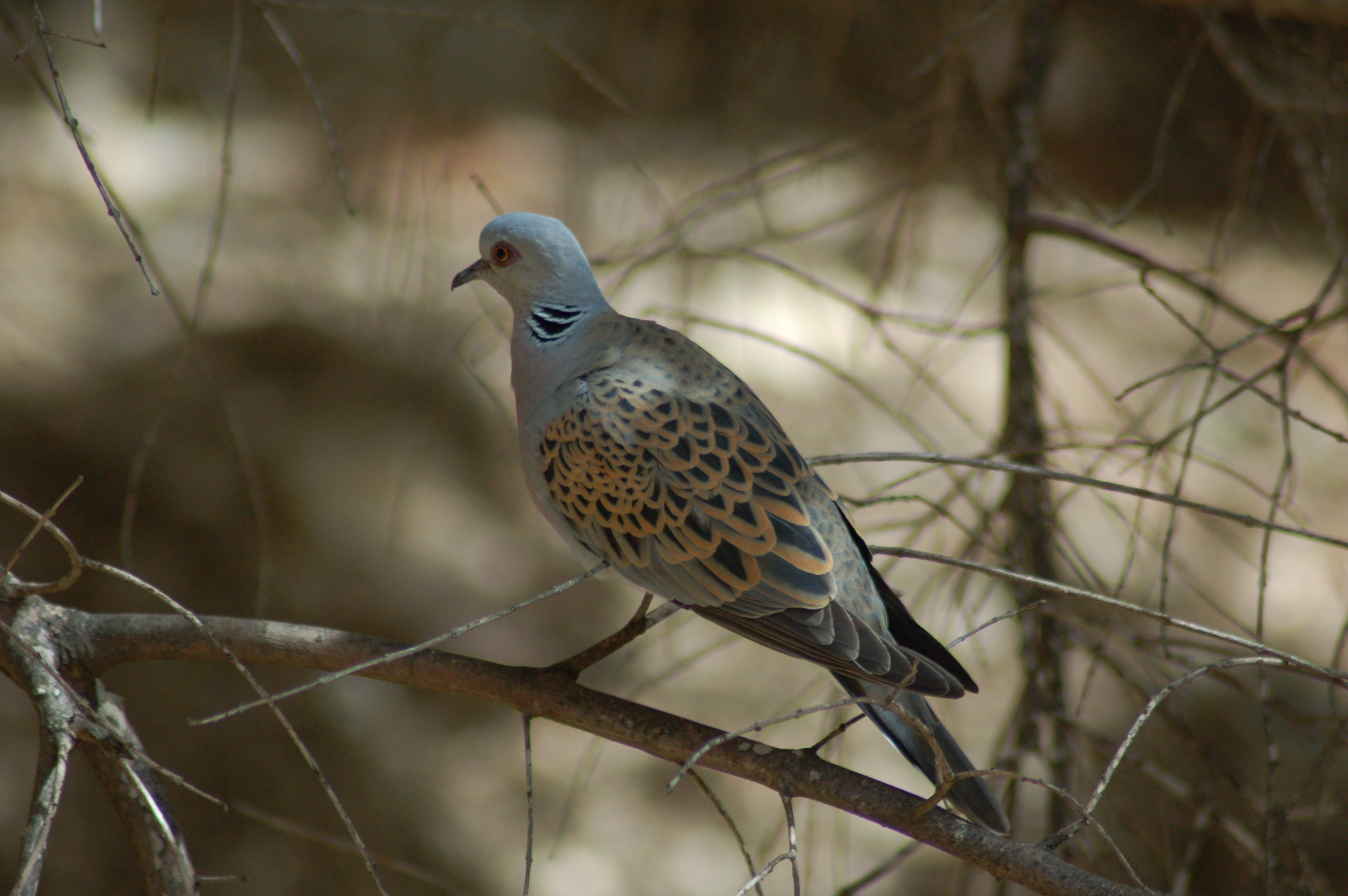 Turtle Dove